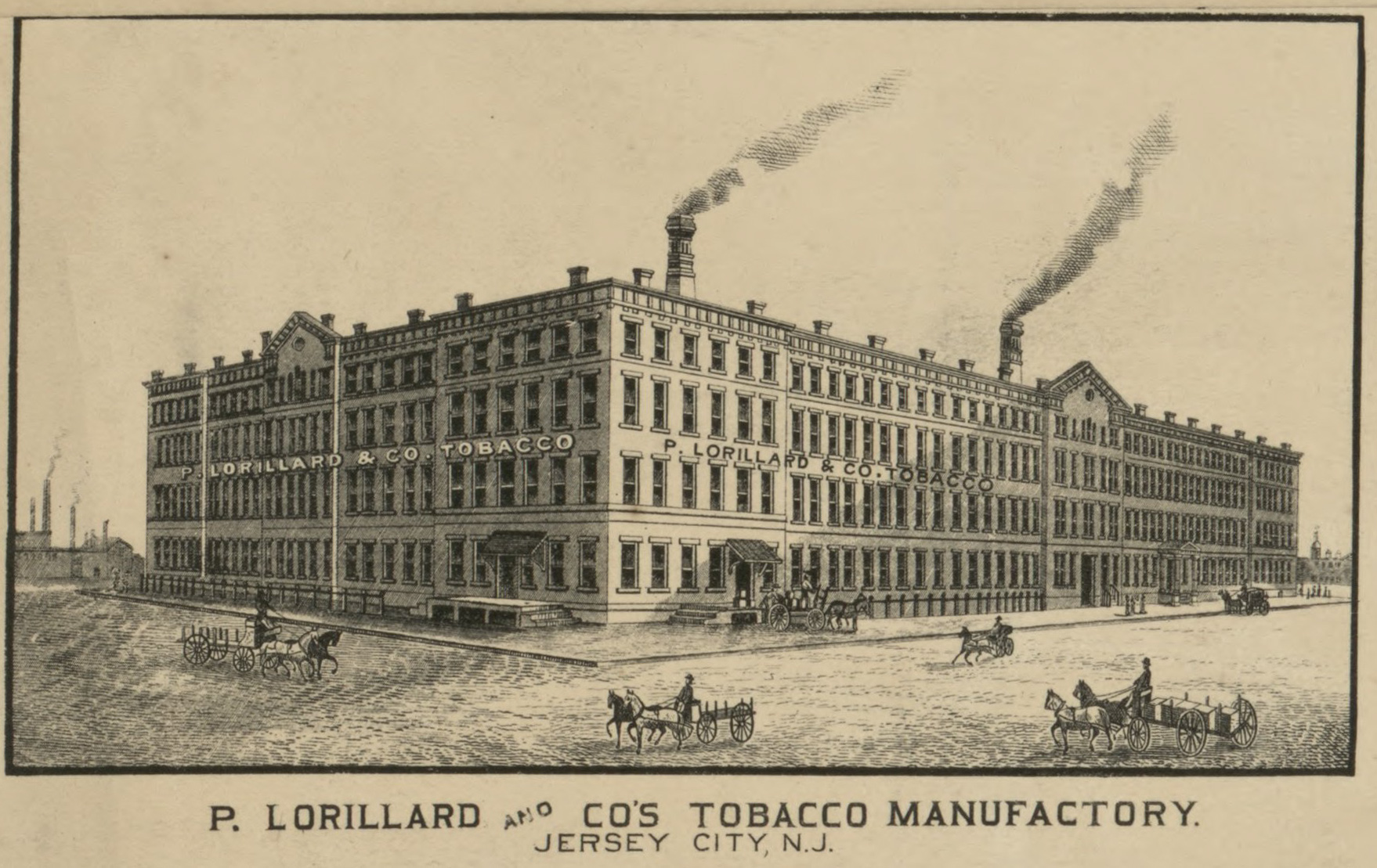 Detail from